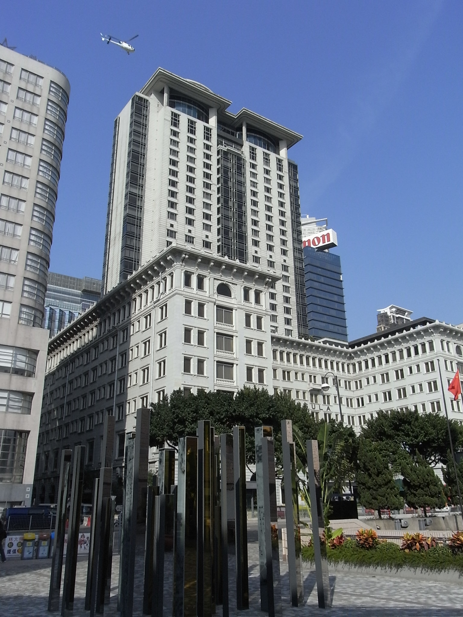 尖沙咀